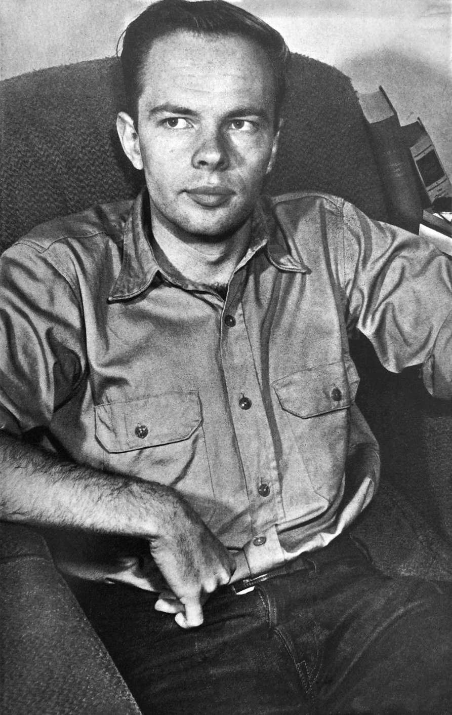 Philip K. Dick in 1962 or earlier. Photo by Arthur Knight. No indication that the copyright was renewed.